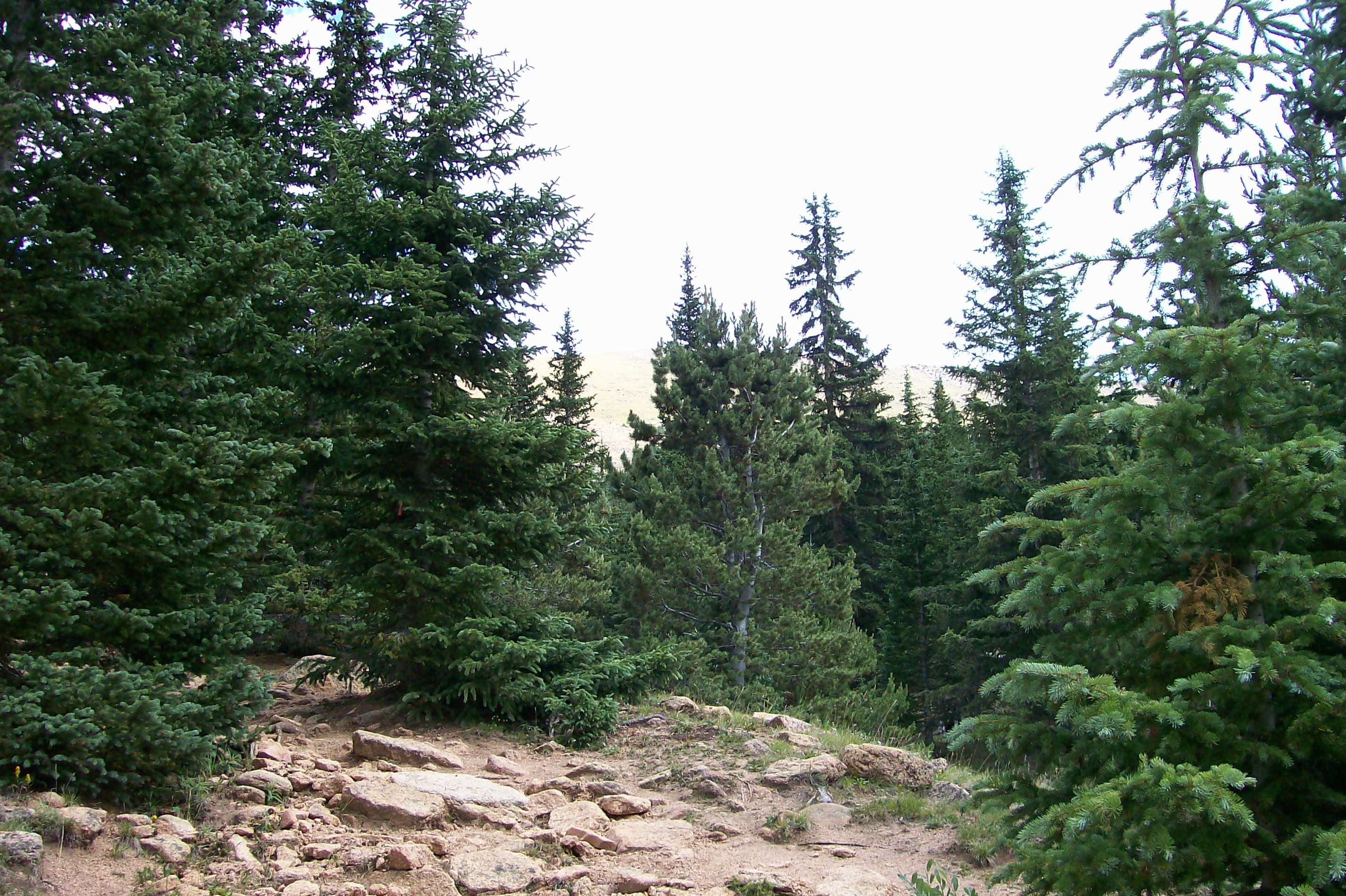 Picea engelmannii and a single Pinus flexilis, Pikes Peak, Colorado.